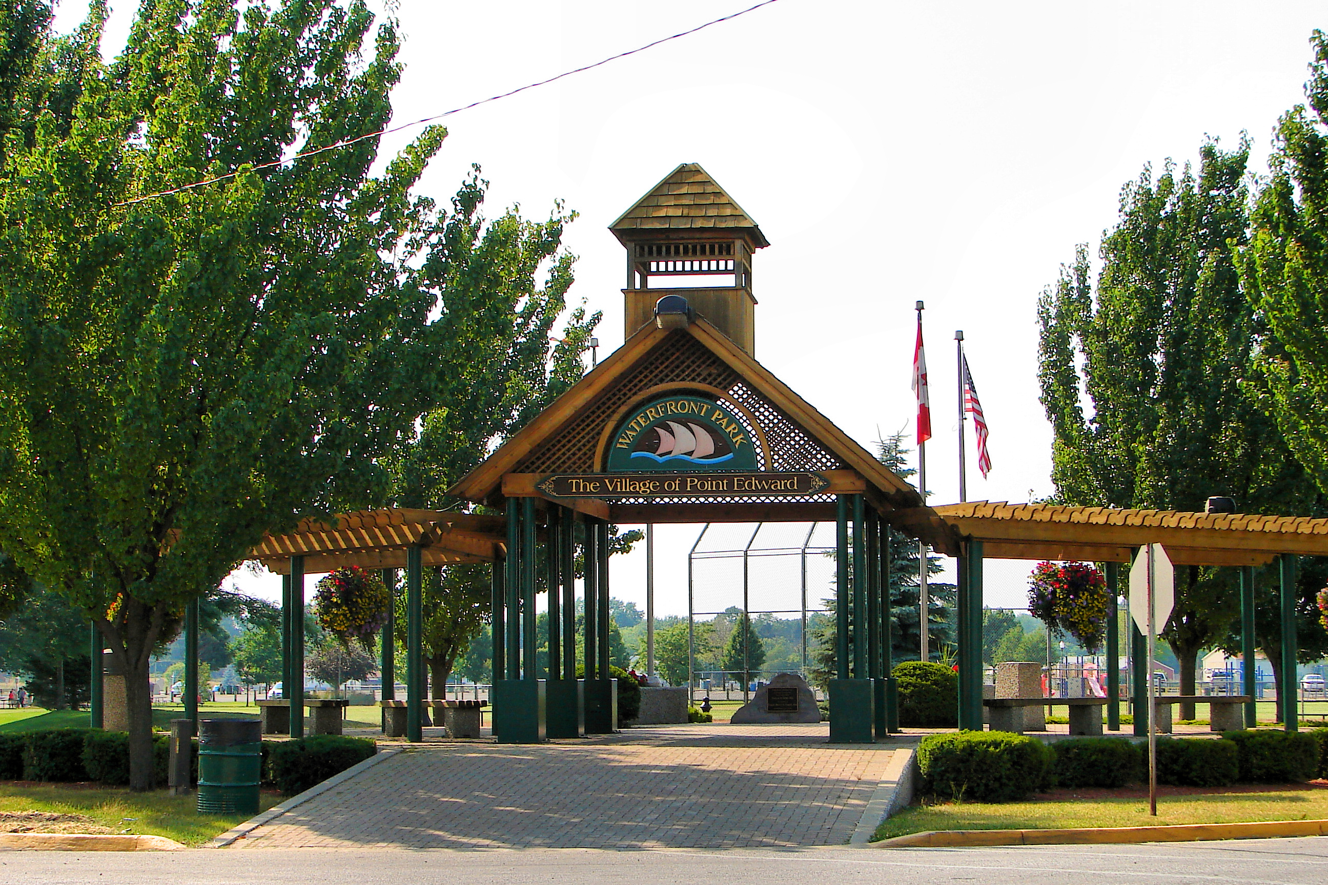 Village of Point Edward, Ontario, Canada